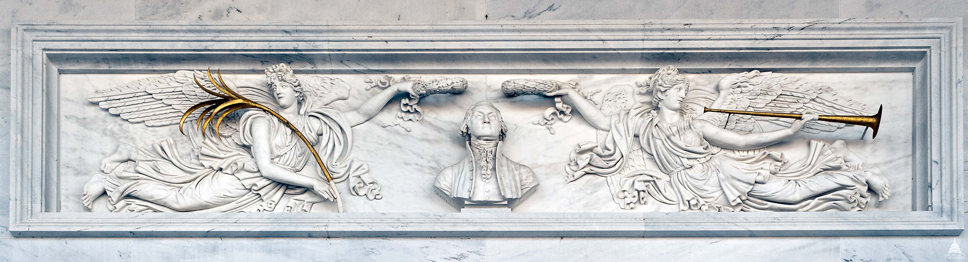 Antonio Capellano, sandstone, 1827 Copied by G. Gianetti in marble, 1959-1960 East central portico, above the Rotunda doors U.S. Capitol The two winged figures, hovering in the air, hold laurel wreaths above the bust of the first president. Fame, on the right, also holds a trumpet; Peace, on the left, a palm branch. The original sandstone panel and bust were executed by Antonio Capellano in 1827. By the time of the extension of the east central front of the Capitol, over a century and a half later, they had deteriorated badly and were reproduced in marble by the carvers of the Vernont Marble Company. The plaster model used to create the new carvings is located on the north wall of the Dirksen Senate Office Building subway terminal. The original sandstone bust is on display near the Capitol Crypt. This official Architect of the Capitol photograph is being made available for educational, scholarly, news or personal purposes (not advertising or any other commercial use). When any of these images is used the photographic credit line should read “Architect of the Capitol.” These images may not be used in any way that would imply endorsement by the Architect of the Capitol or the United States Congress of a product, service or point of view. For more information visit